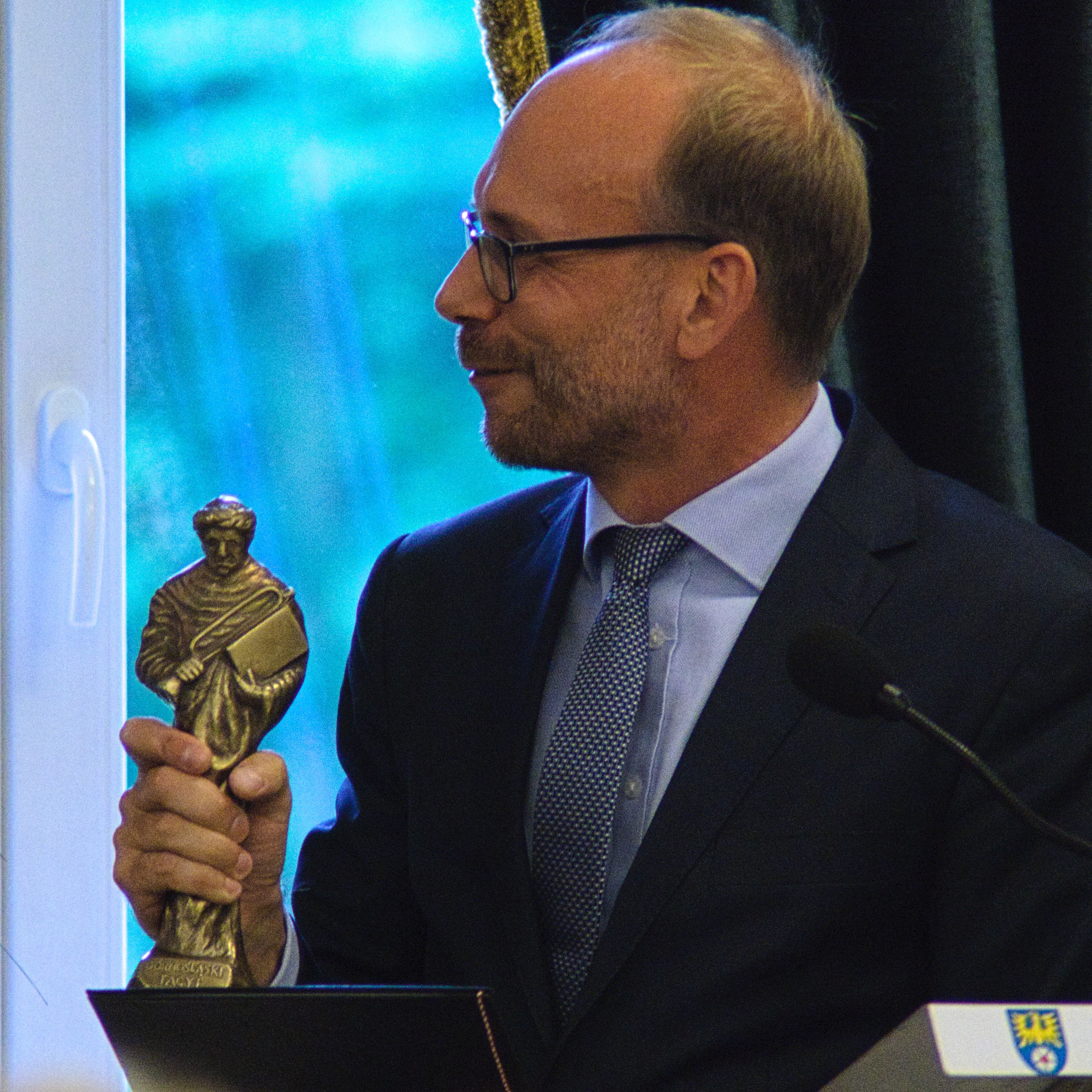 Jerzy Gorzelik holds Górnośląski Tacyt (Upper Silesian Tacitus) prize statuette at prize gala in palace in Nakło Śląskie, before handing it to Grzegorz Kulik